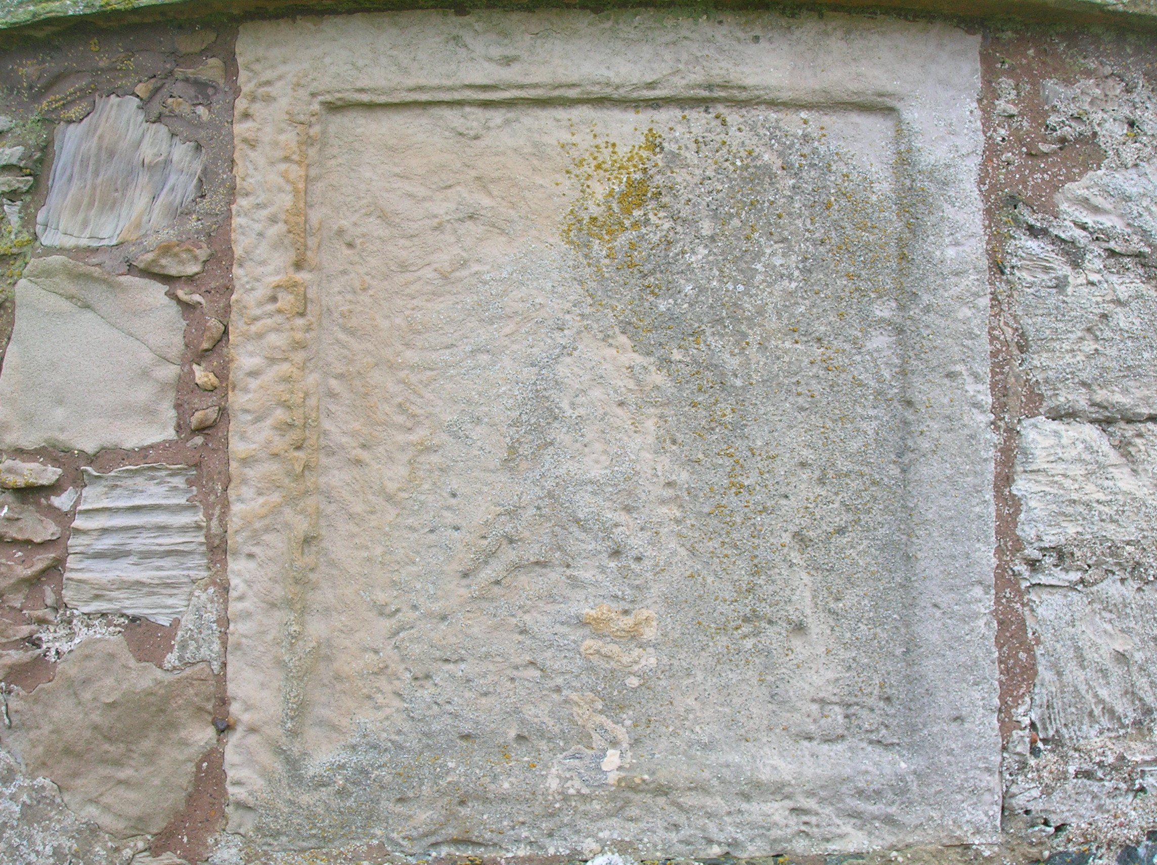 Shaw Monument panel. Prestwick, South Ayrshire, Scotland.